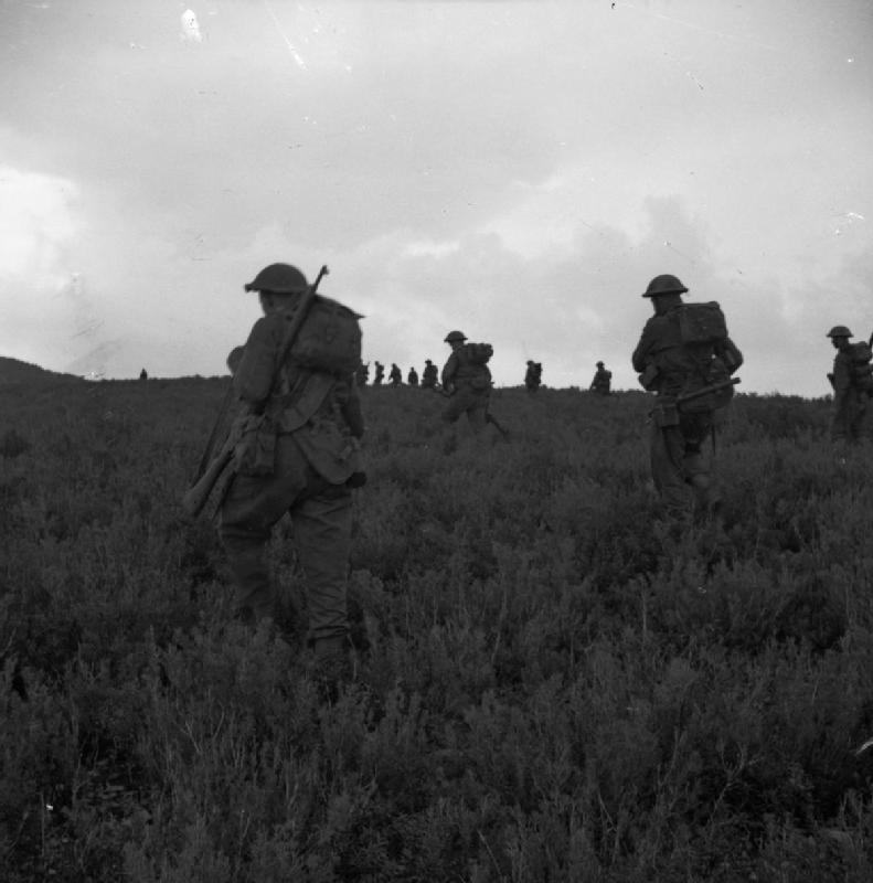 The British Army in Tunisia 1942 Infantry of 2nd Coldstream Guards advance on Longstop Hill, 25 December 1942.